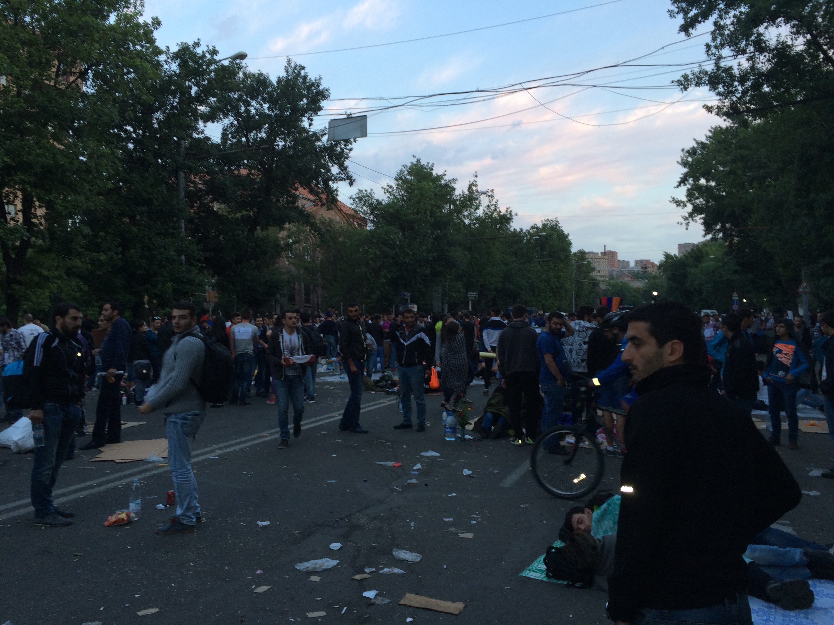 During Electric Yerevan protests.